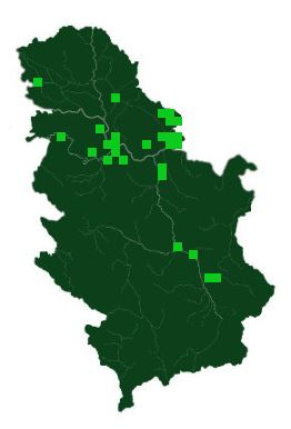 Rasprsotranjenje vrste u Srbiji (Alciphron)